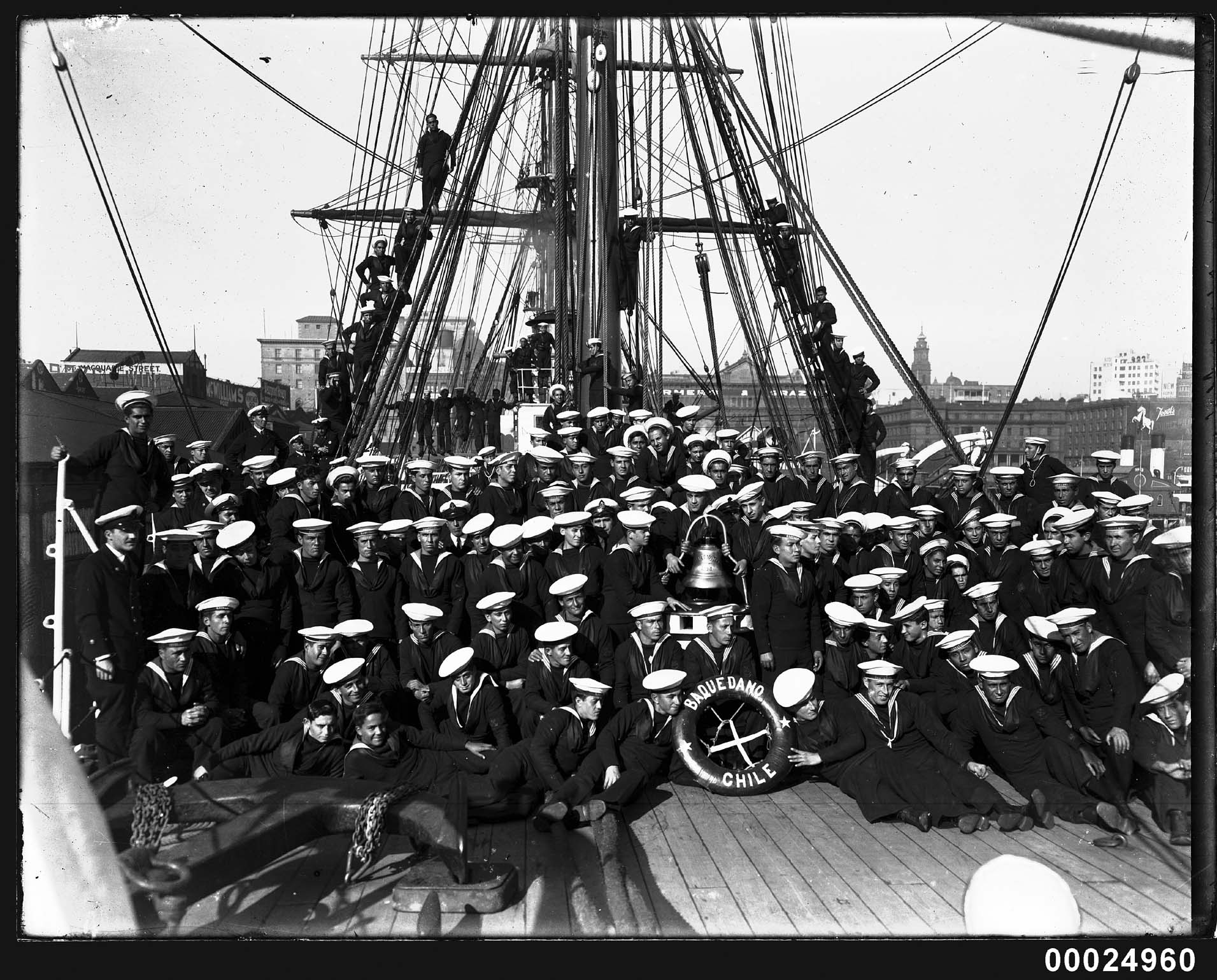 The GENERAL BAQUEDANO moored at East Circular Quay on 16 July 1931 and the crew spent two weeks in Sydney. The ship had previously visited Sydney in 1903. In 1931, the vessel was considered obsolete as a fighting ship, but very useful as a training vessel. In naval categories, GENERAL BAQUEDANO is known as a corvette (in Spanish corbeta), which is defined as a flush-decked ship with one tier of guns, a type replaced by the modern cruiser. Fully-rigged, the vessel was fitted with triple-expansion engines as auxiliary, and had a displacement of 2,330 tons. The visit attracted significant public interest and the daily activities of the Chileans were reported in the Sydney Morning Herald. The crew played a soccer match against members of the HMAS CANBERRA crew, laid a wreath at the Martin Place cenotaph, displayed their rigging skills while aloft and opened their vessel to the public. Captain Alvarez also hosted visits by the Governor of NSW Sir Phillip Game, the Premier of NSW and the Lord Mayor. The departure of GENERAL BAQUEDANO from Sydney Harbour was quite eventful, with one rating attempting to desert the ship and swim ashore, two sailors being left at the dock and transported to the vessel by police launch and another bewildered Chilean was found wandering the streets. He was later reunited with his fellow sailors in Auckland after transport was arranged on a departing cargo ship. This photo is part of the Australian National Maritime Museum’s Samuel J. Hood Studio collection. Sam Hood (1872-1953) was a Sydney photographer with a passion for ships. His 60-year career spanned the romantic age of sail and two world wars. The photos in the collection were taken mainly in Sydney and Newcastle during the first half of the 20th century. The ANMM undertakes research and accepts public comments that enhance the information we hold about images in our collection. This record has been updated accordingly. Photographer: Samuel J. Hood Studio Collection Object no. 00024960